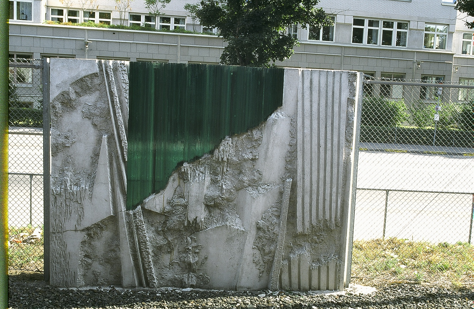 Art by Joanna Troikowicz in Sweden